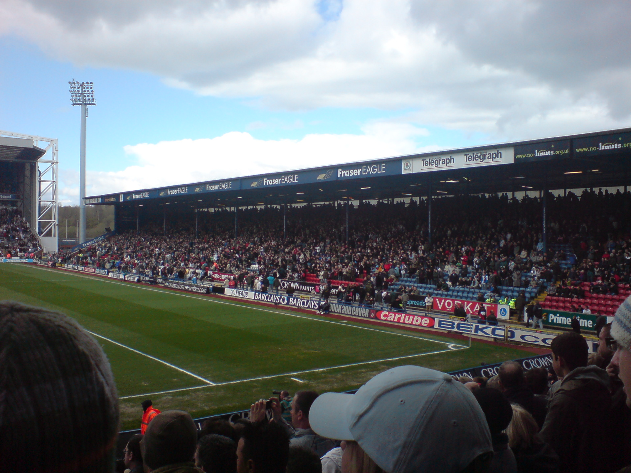 The Fraser Eagle stand at Ewood Park, Blackburn